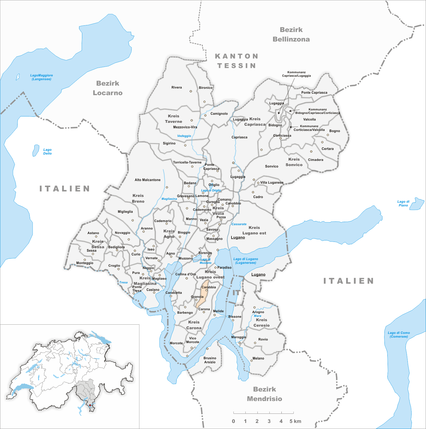 Municipality Carabbia